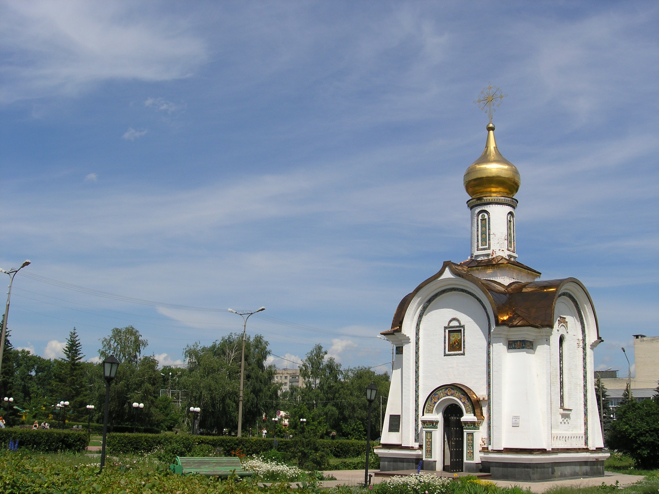 Church of Christmas, Tolyatti, Russia